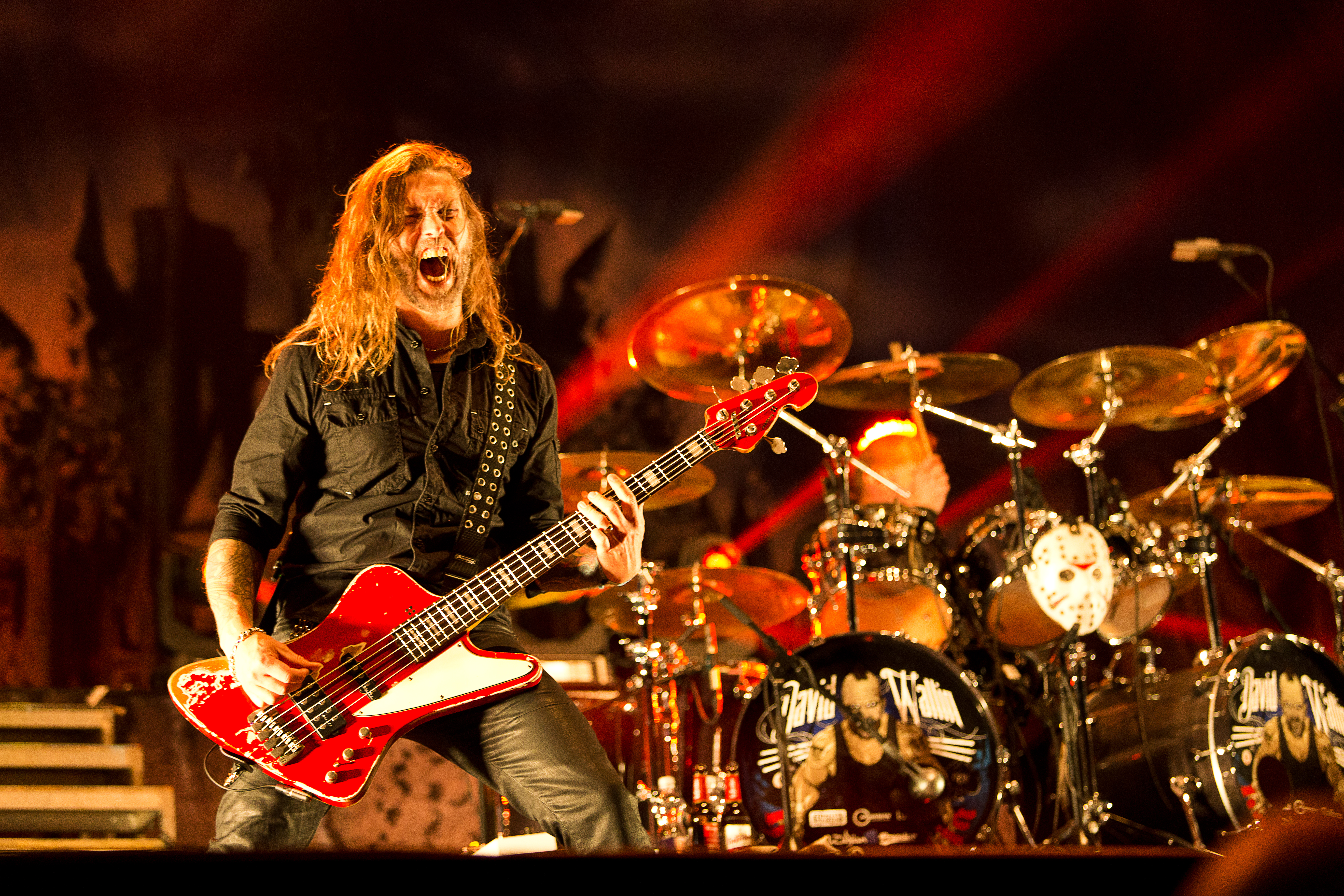 The Swedish power metal band Hammerfall at the Rockharz Open Air 2015 in Ballenstedt/Germany.